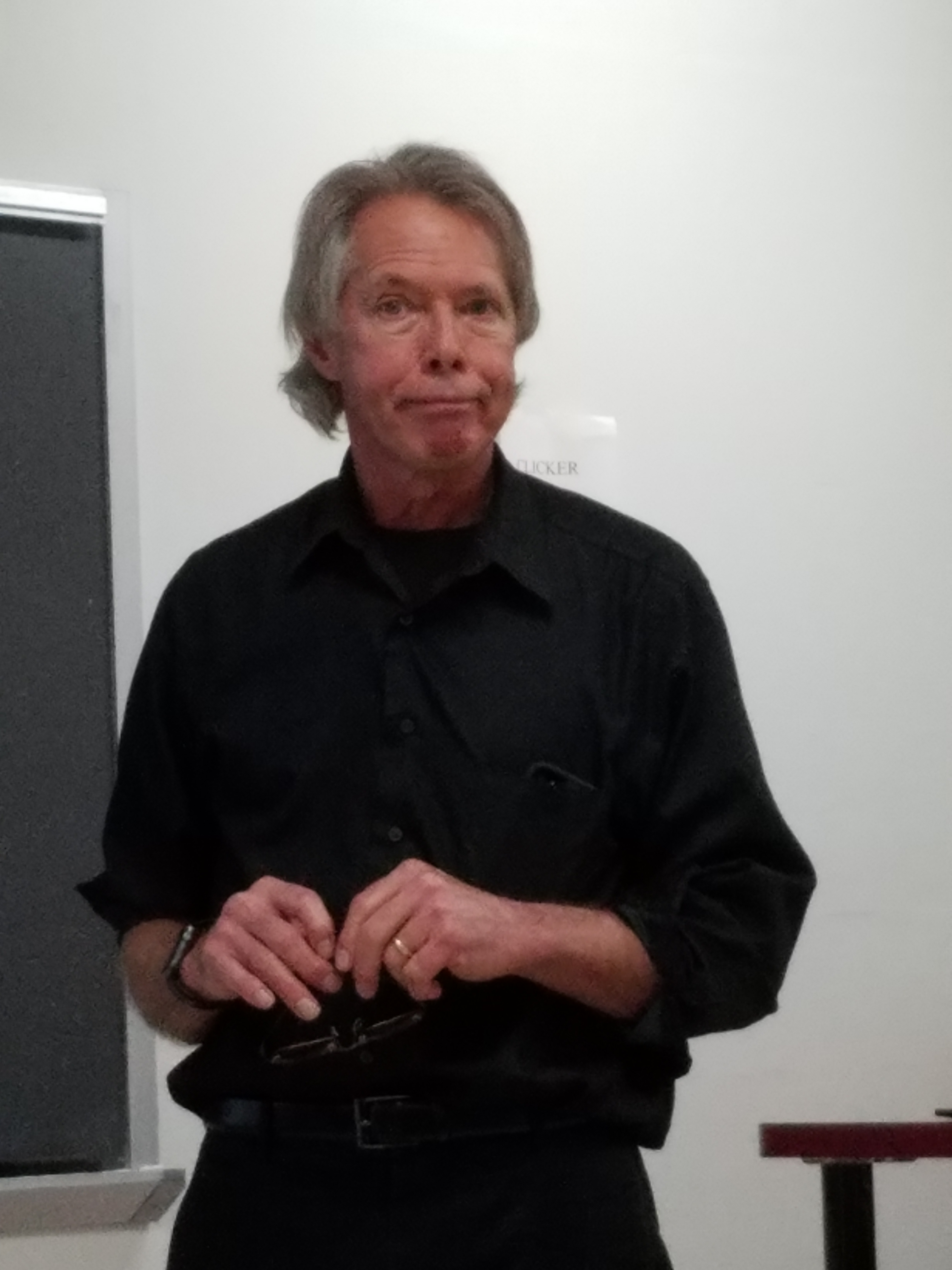 Kent norman teaching at UMD on feb 24th 2017